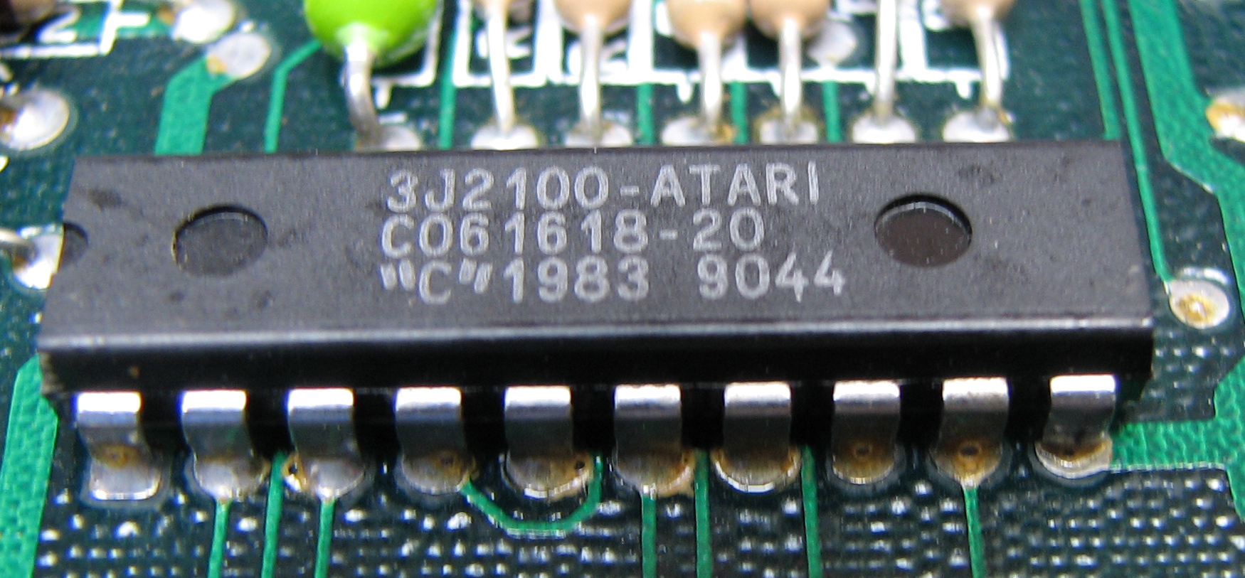 An actual Atari MMU memory controller installed on an Atari 130XE motherboard